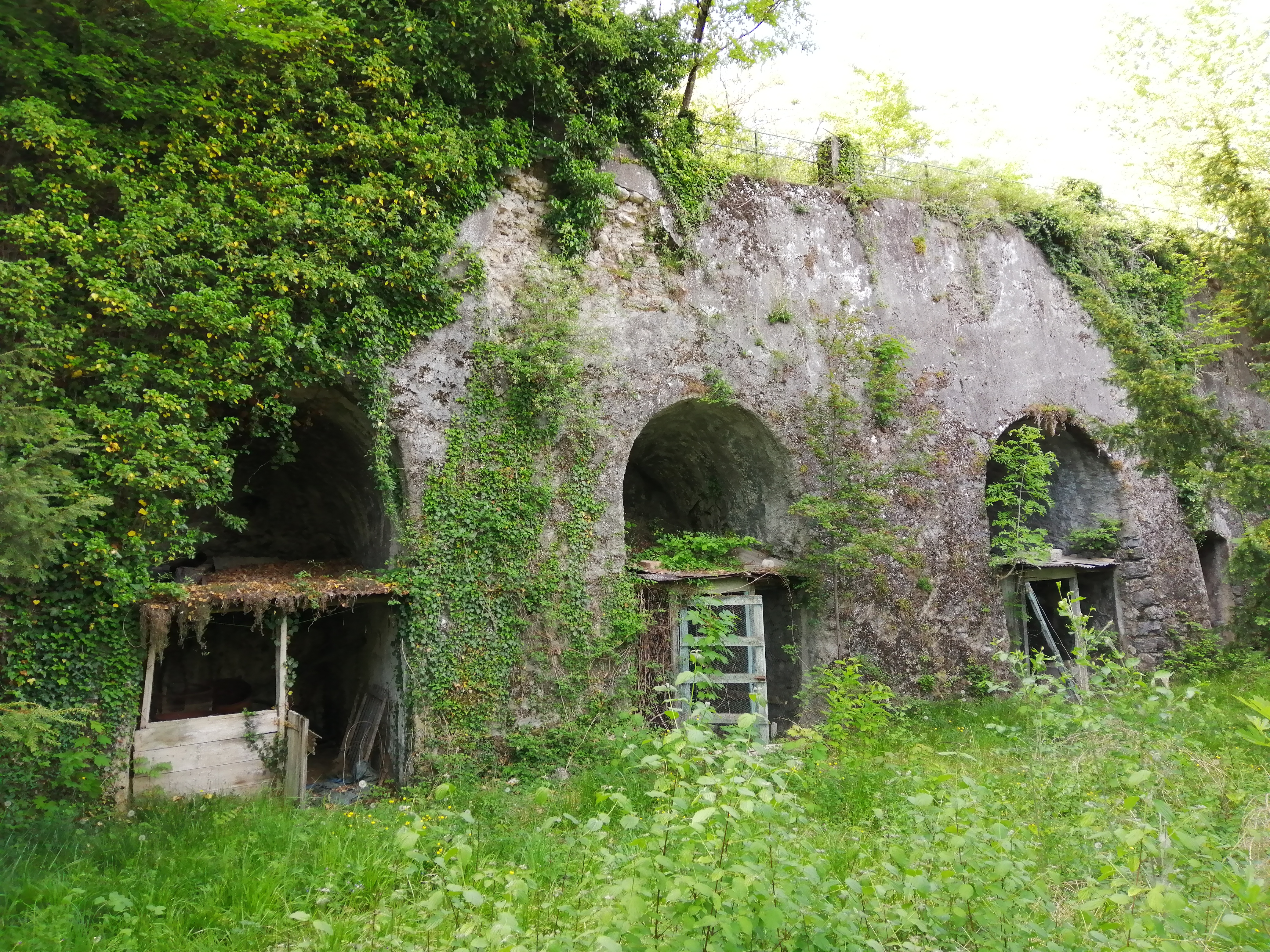 Old lime quarries of the Convent of the Visitation Sainte-Marie (in Vif, France).